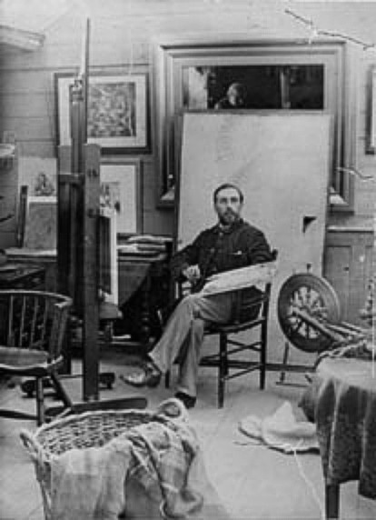 Walter Langley's studio from the Newlyn Artists Photograph Album